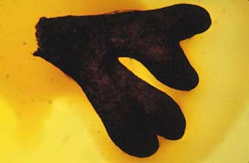 Piece of Protosalvinia thallus mounted in a microscope slide at low magnification.